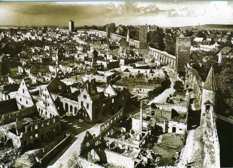 Historical photo (ca. 1945) of the bombed old town of Rothenburg ob der Tauber, Bavaria, Germany. March 31, Allied bombs were dropped over Rothenburg by 16 planes, killing 39 people and destroying 306 houses, six public buildings, nine watchtowers, and over 2,000 feet (610 m) of the medieval town wall. Most of the buildings were reconstructed accurately. Location of the photographer : Faulturm